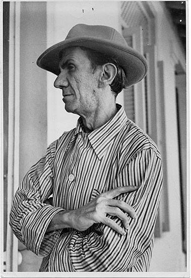 Fidelio Ponce de León, photo taken in Cuba, 1947, by Jose Gomez-Sicre